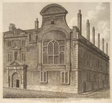 The North Front of Sion College, from Londina Illustrata vol. 1. Described at .